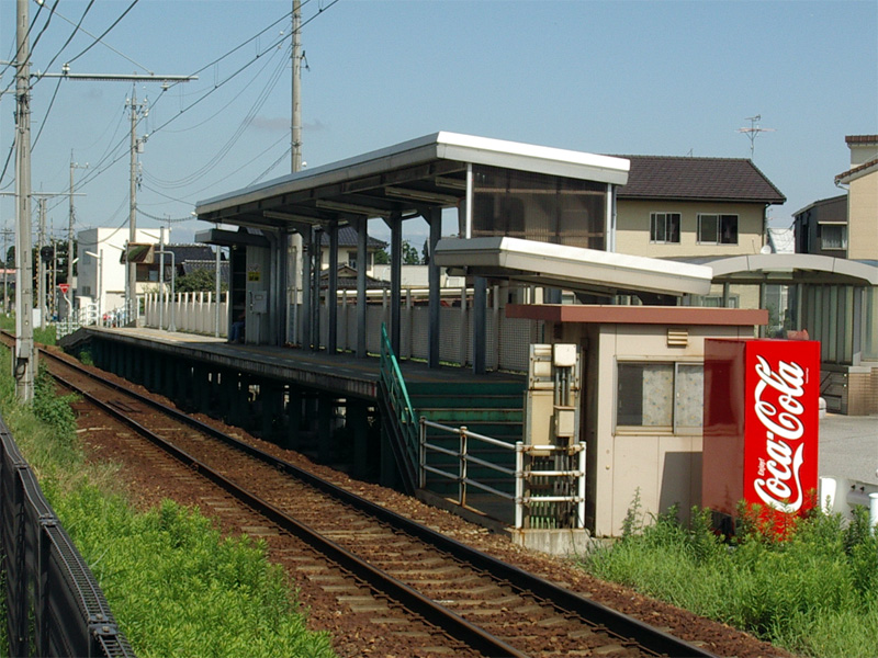 Kosugi Station on the Toyama Chiho Railway Kamidaki Line in the city of Toyama, Toyama Prefecture, Japan